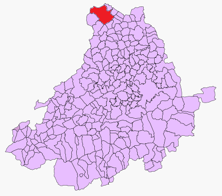 Madrigal de las Altas Torres